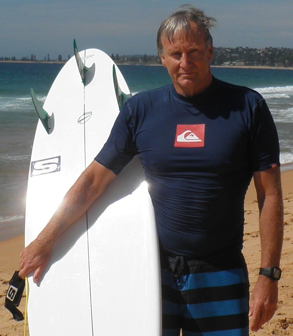 Simon Anderson holds a surfboard at North Narrabeen Beach, NSW, Australia.